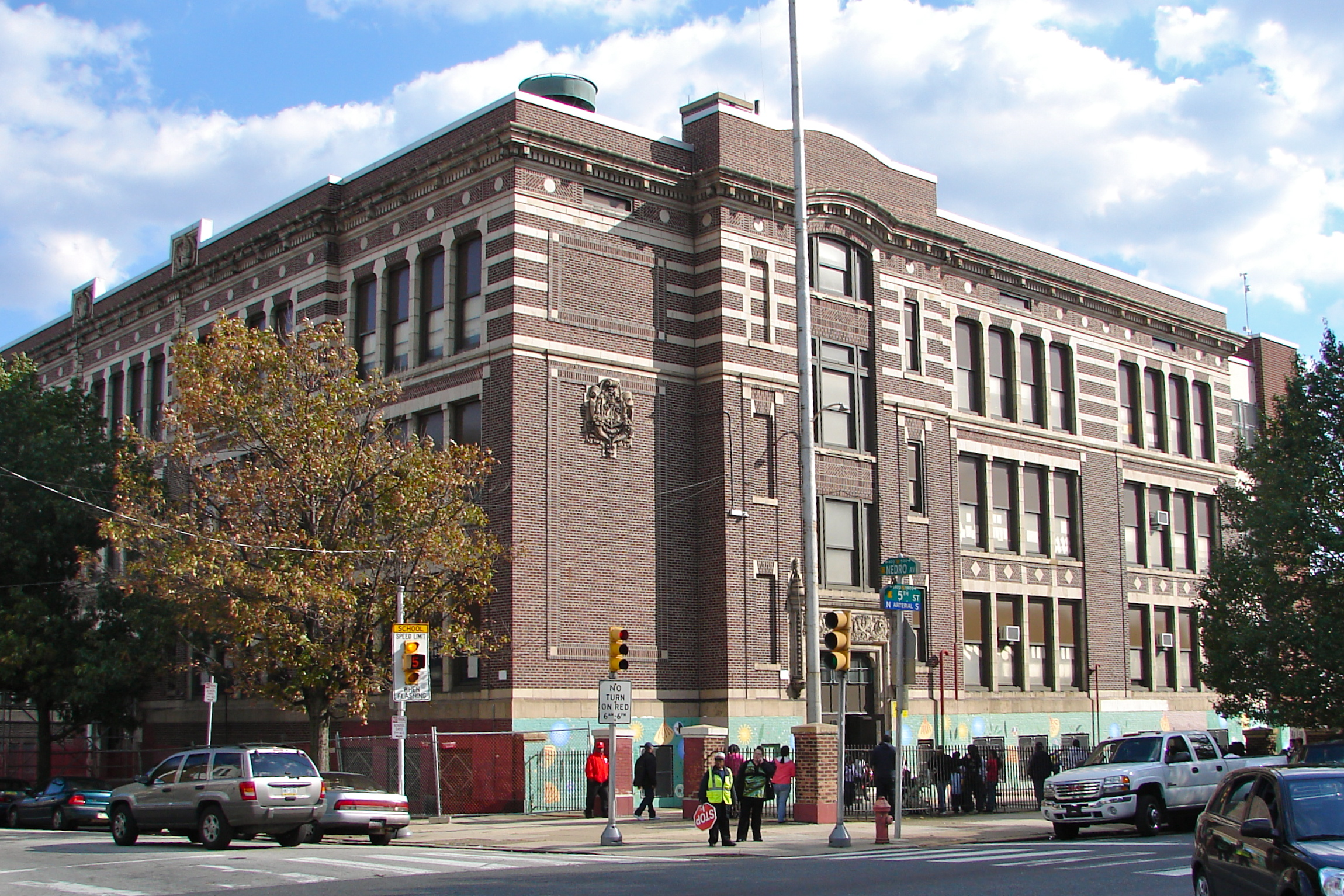 James Russell Lowell School on the NRHP since November 18, 1988. At 450 W. Nedro Ave., Philadelphia in the NE neighborhood of Olney